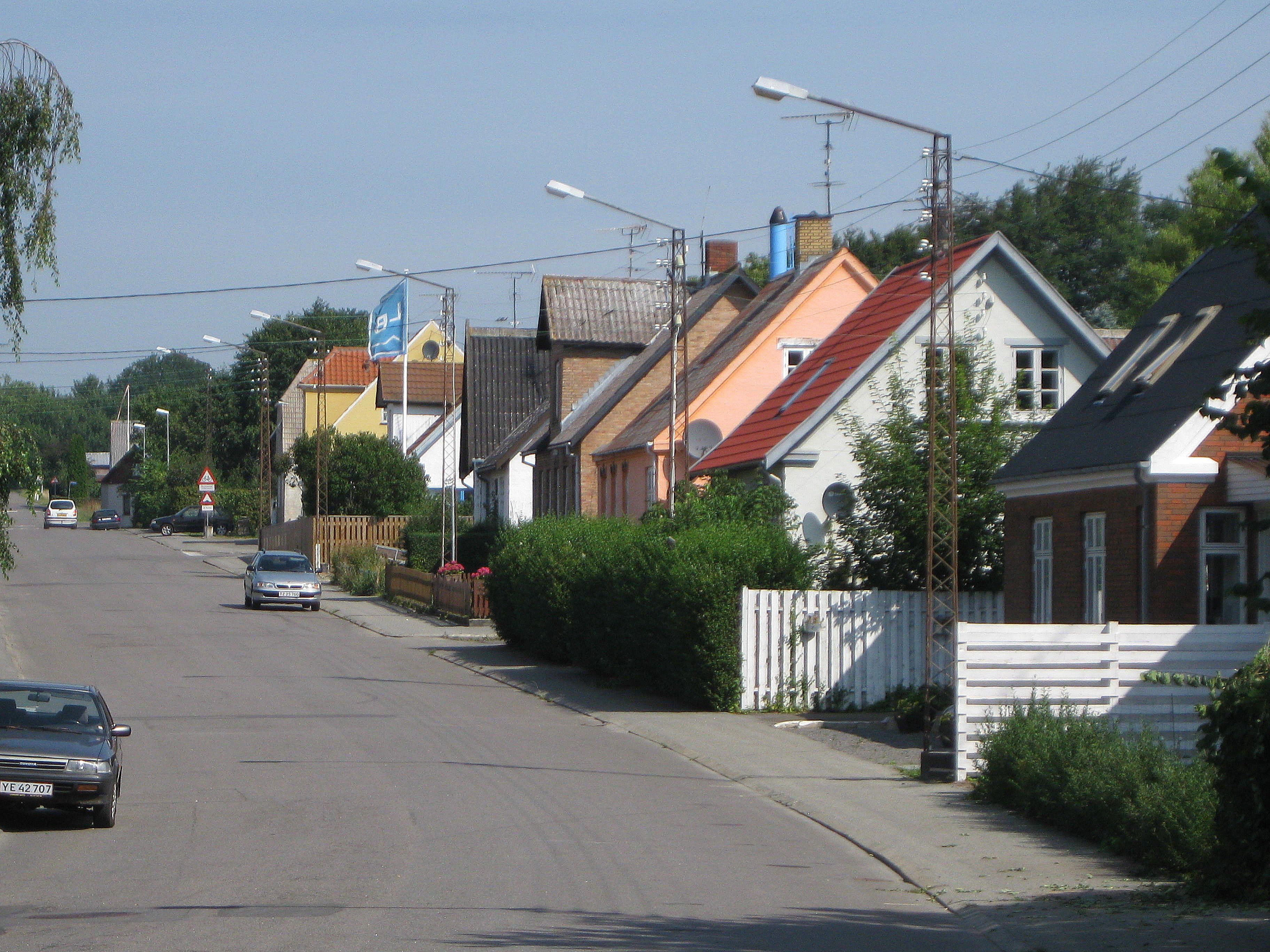 The village "Lobbæk" located on the southern part of the island Bornholm. The island is located in east Denmark.